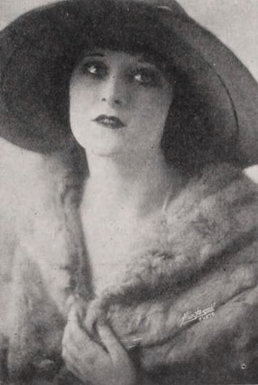 Actress Dorothy Revier (captioned under her birth name Dorothy Valegra), on page 43 of the October 29, 1921 Exhibitors Herald.